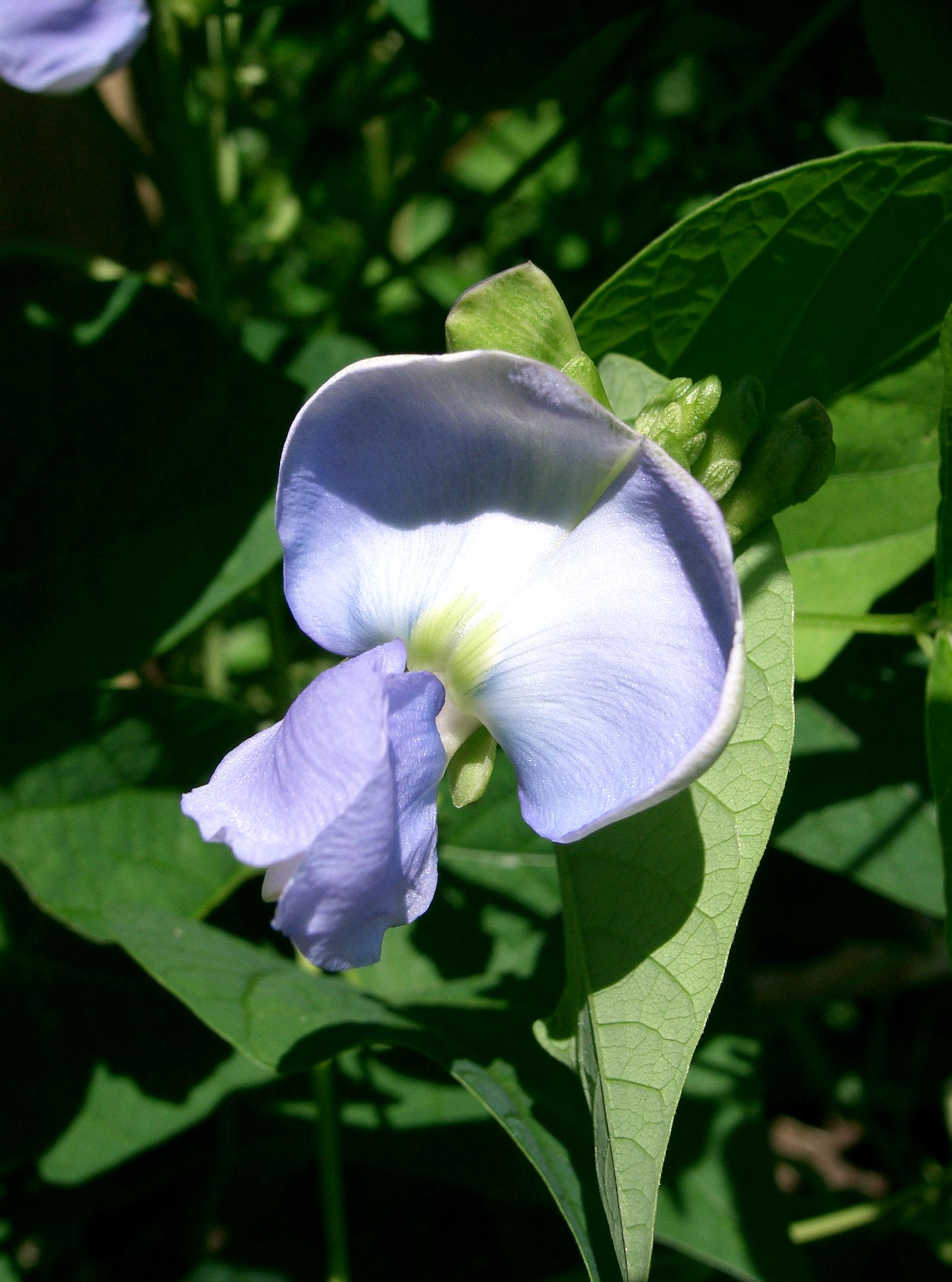 Psophocarpus tetragonolobus